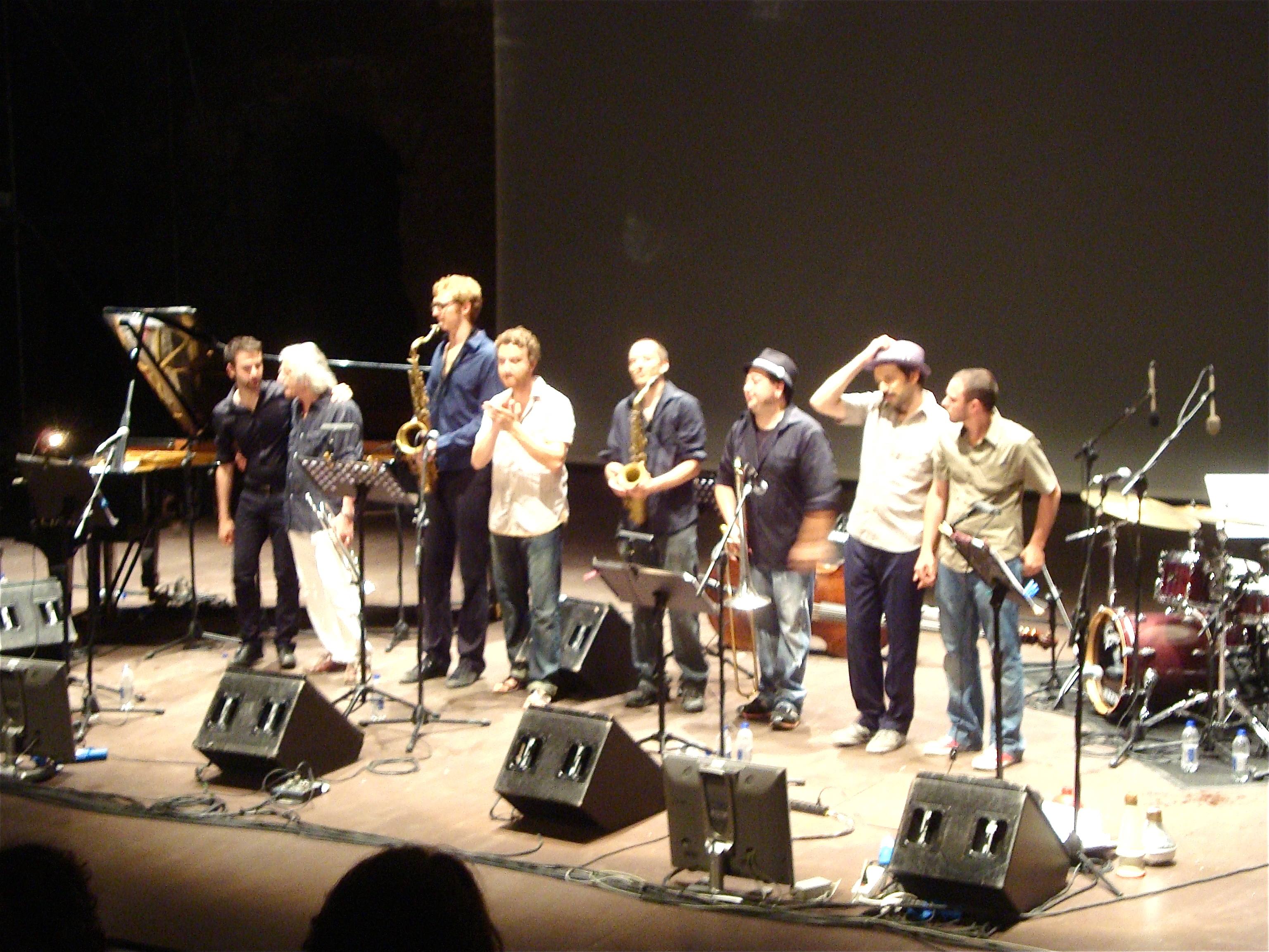 The Enrico Rava Special Edition band in concert at villa Adriana, Tivoli, Italy on july 13th 2010. From left to right : pianist Giovanni Guidi, trumpet Enrico Rava, sax tenor Dan Kinzelman, bass Stefano Senni, sax contralto Daniele Tittarelli, trombone Mauro Ottolini, drums Zeno De Rossi and electric guitar Marcello Giannini.